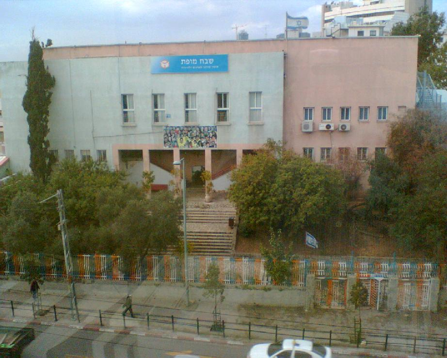 Shevach Movet School in Tel-Aviv